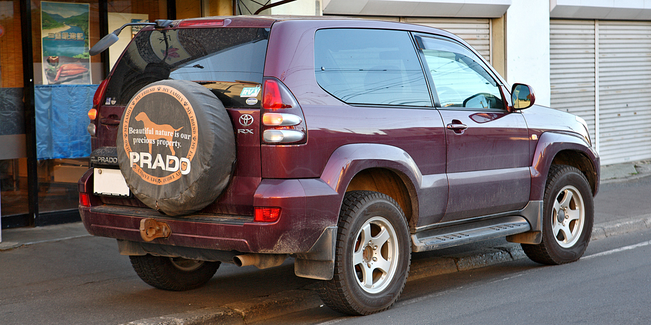 Toyota Land Cruiser 120 Prado RX